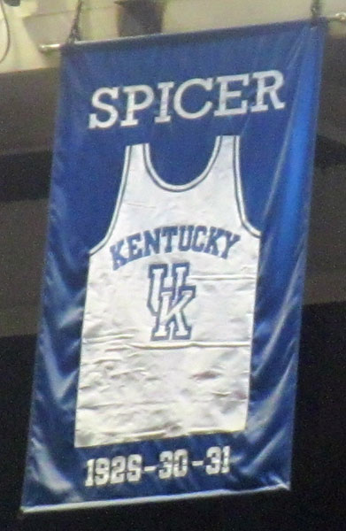 A jersey honoring Carey Spicer hanging in Rupp Arena in Lexington, Kentucky